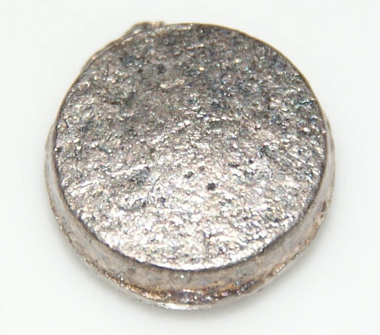 Bismuth ingot, 5 grams, 1.2 cm diameter.